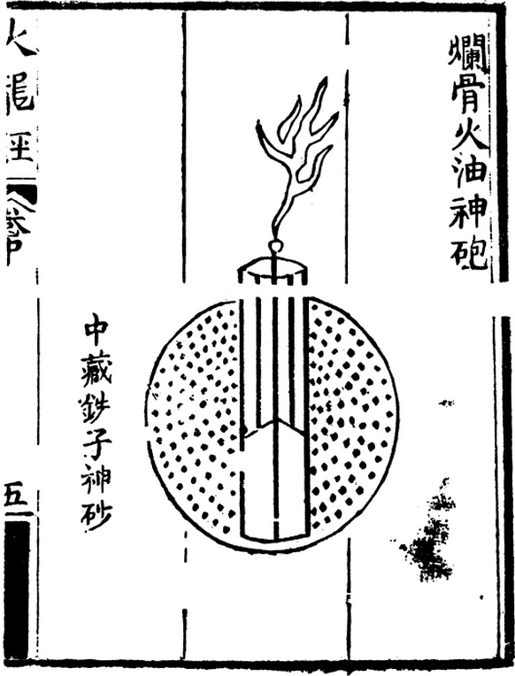 An illustration of a fragmentation bomb from the 14th century Ming Dynasty book Huolongjing. The black dots represent iron pellets. Text on left: 中藏铁子神砂 (Iron pellets inside [are] magical grit), Text on right: 爛骨火油神砲 (Bone crushing petroleum magical artillery [shell]).